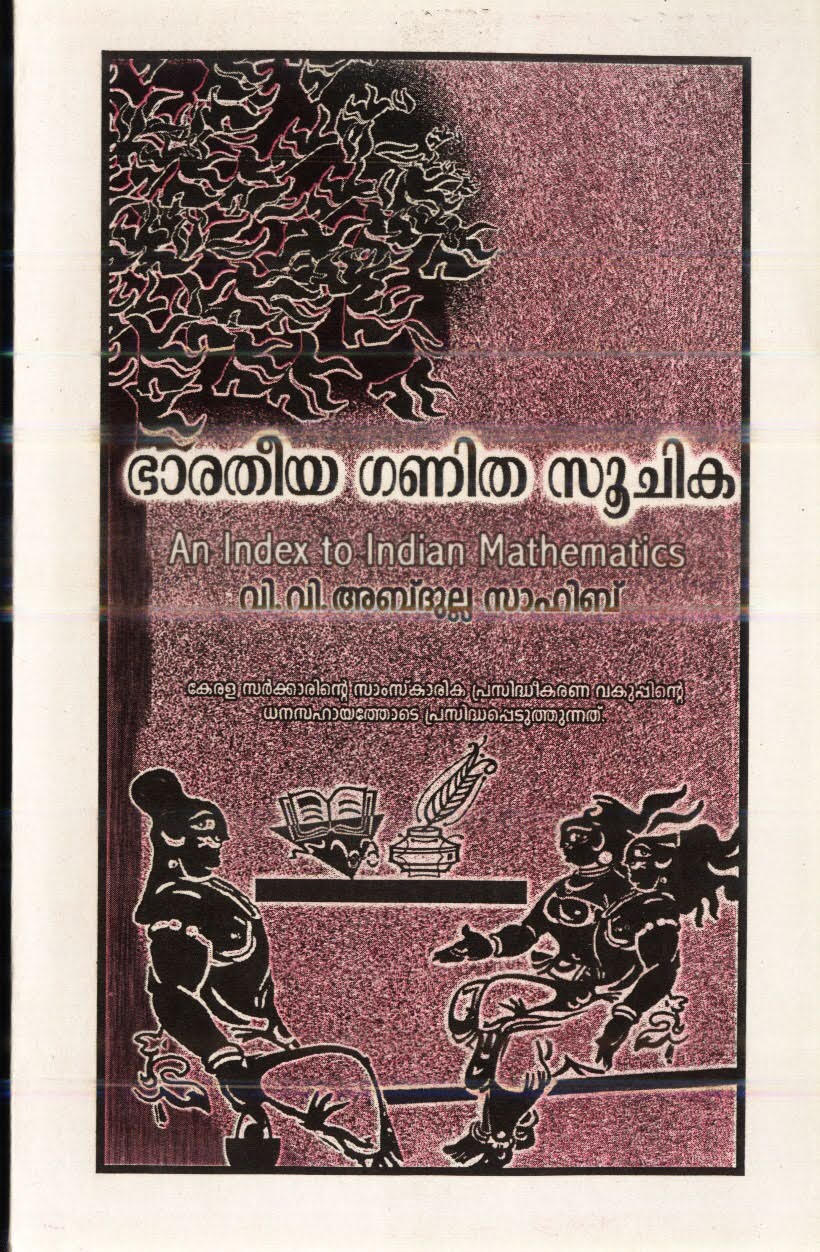 Bharatheeya Ganitha Soochika